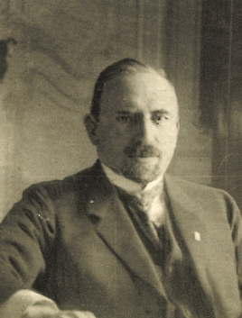 People's Commissar for Foreign Affairs Péter Ágoston in 1919 (postcard)